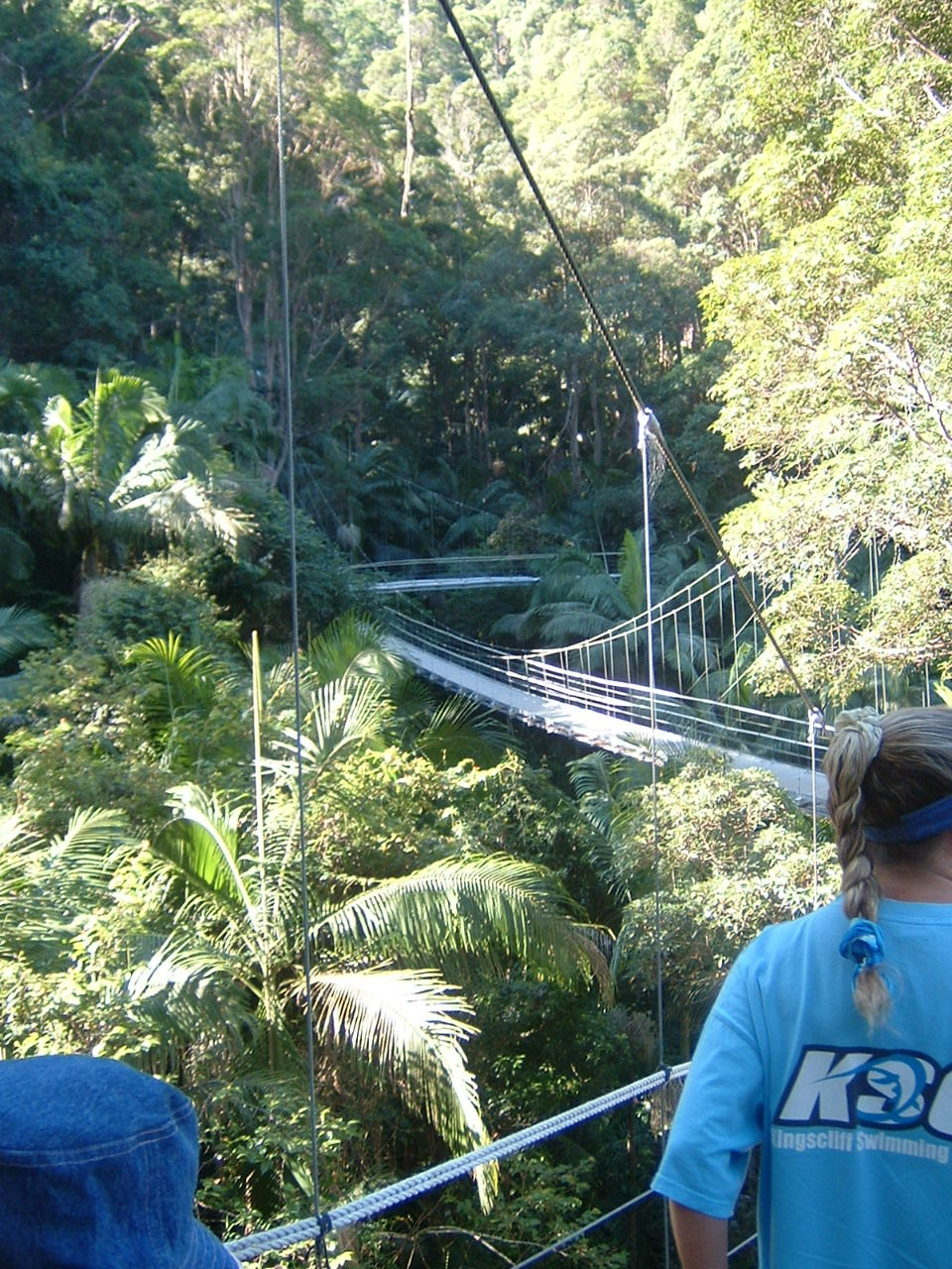 Taken by me on location in "the Junge" at Dungy